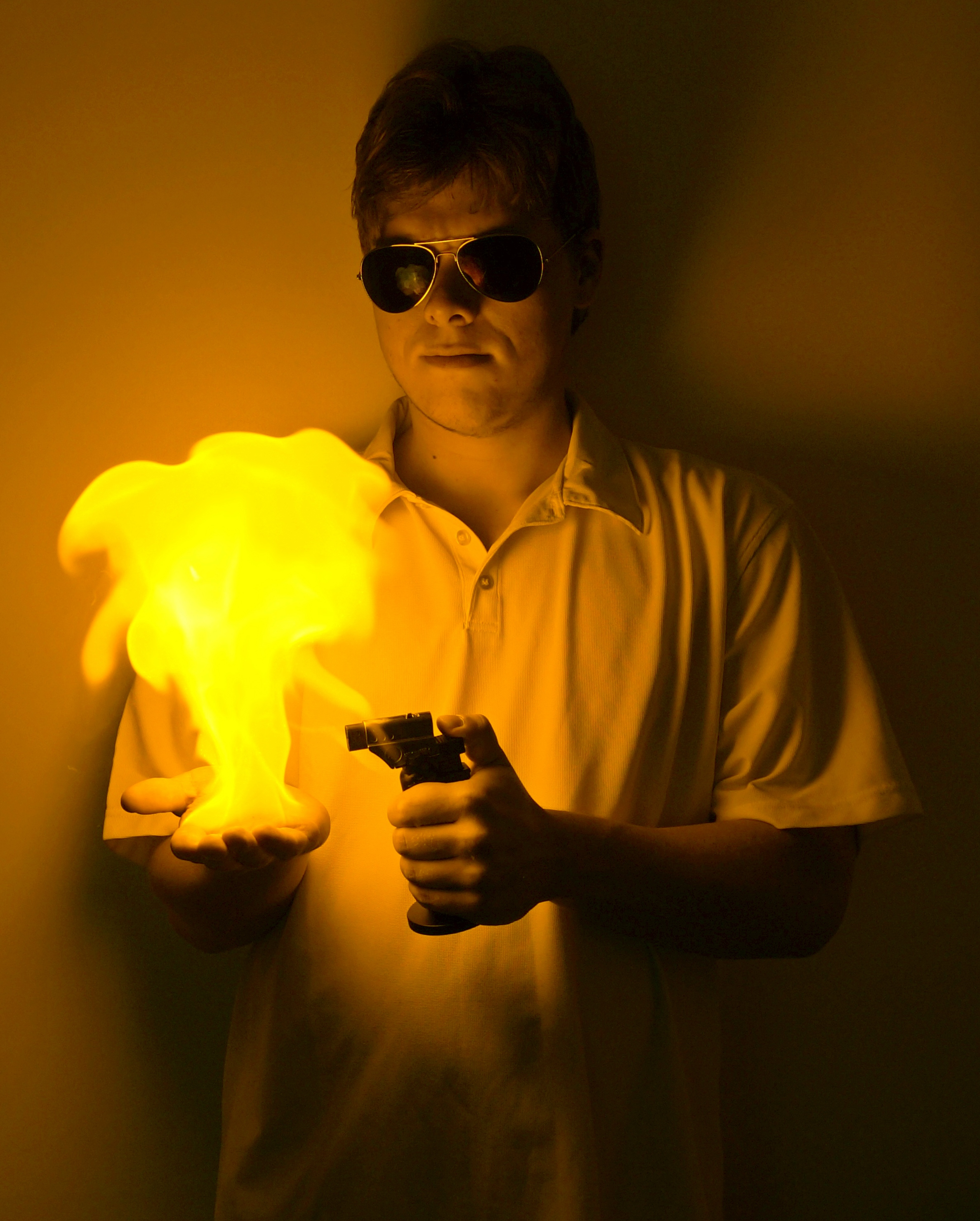 Estonian science popularizer Maxim Bilovitskiy is holding on his hand a burning nitrocellulose. Nitrocellulose burns so quickly that it can be ignited while holding it with hands and not getting them burned.